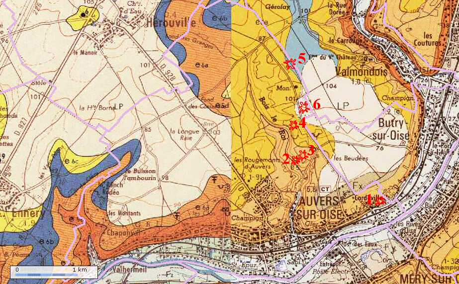 Positioning of Auvers-sur-Oise geological outcrops on geological maps